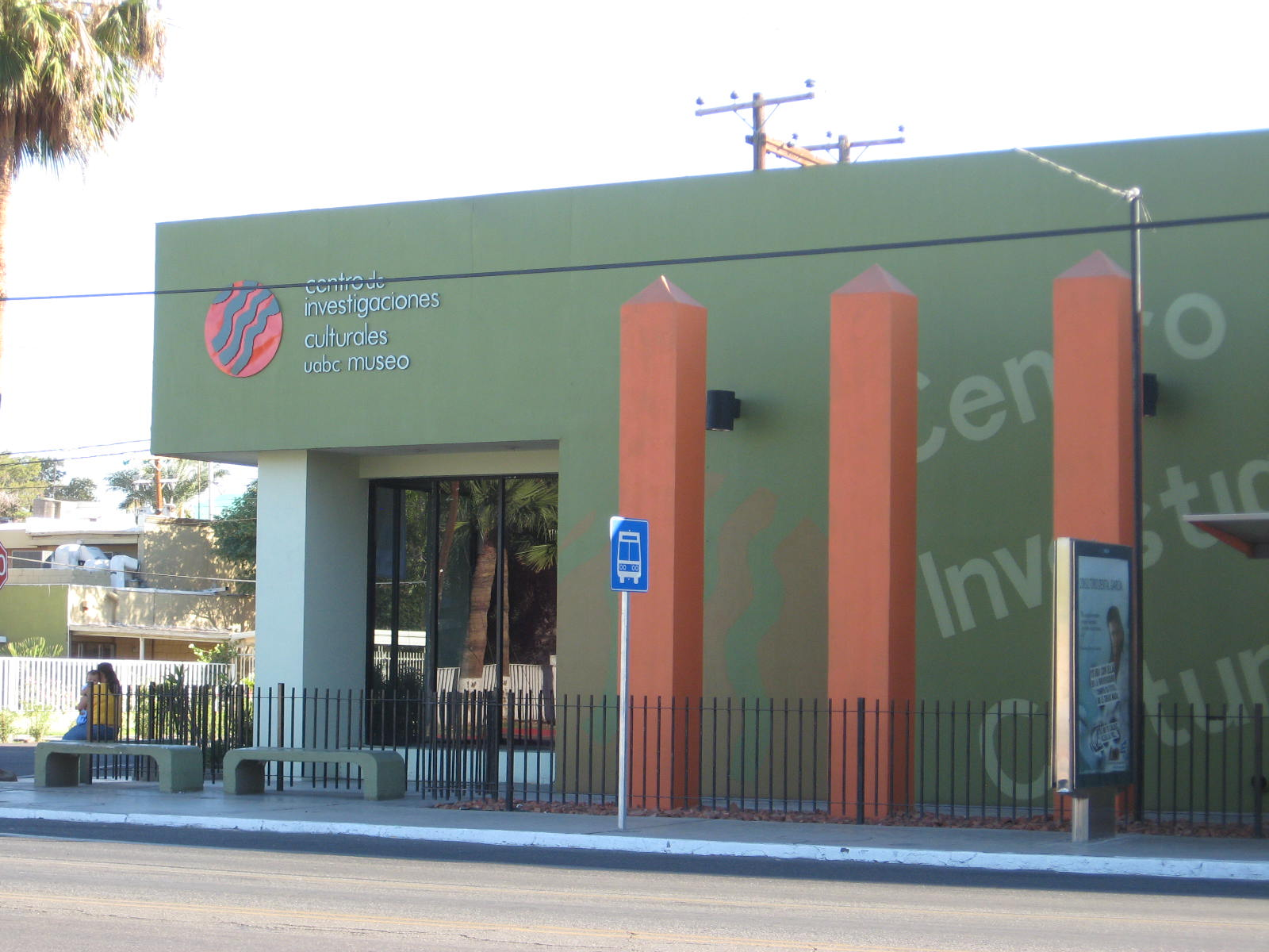 UABC museum of cultural research located in Mexicali Baja California Mexico